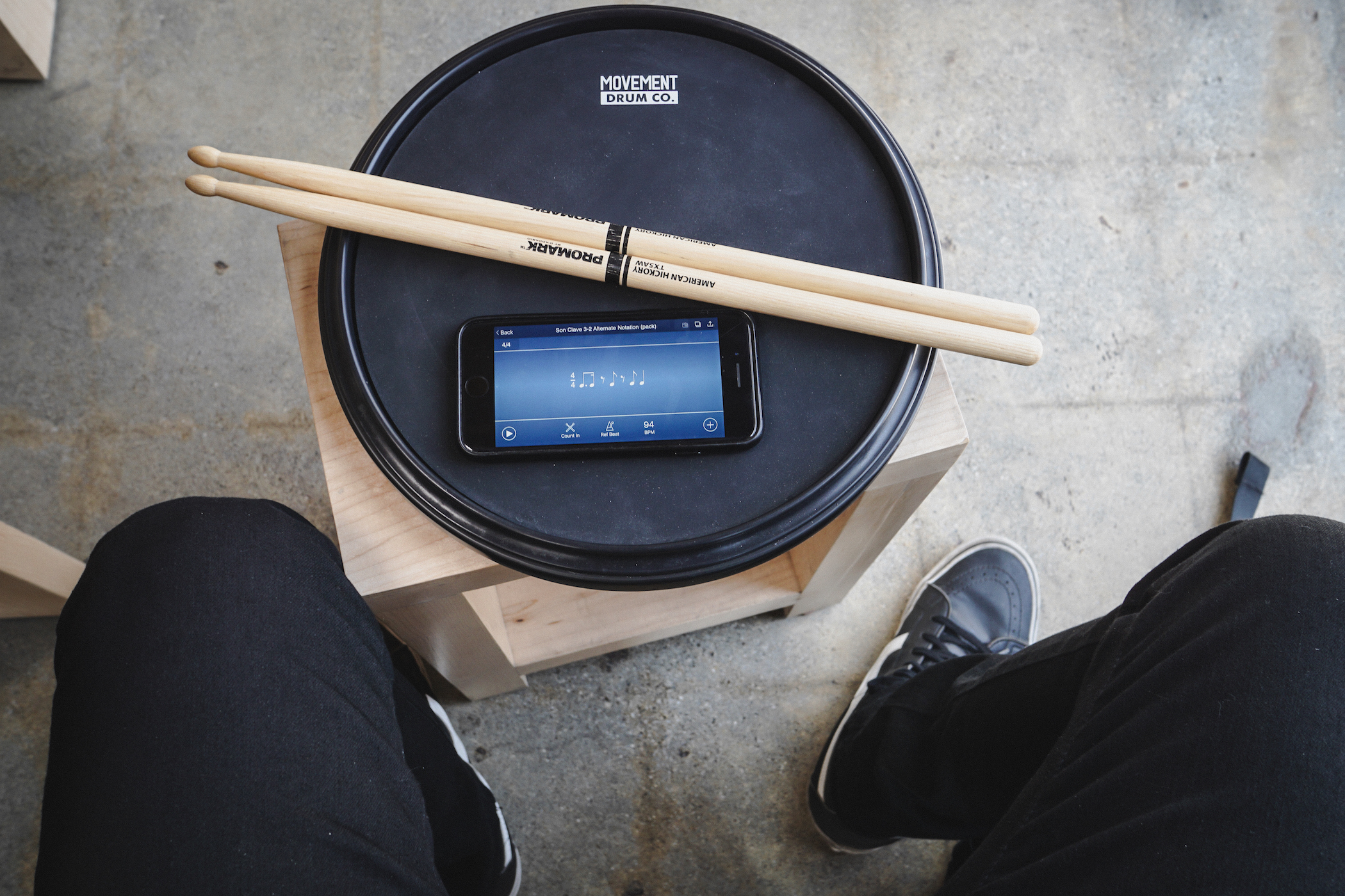 Using a metronome with a practice pad is a common and effective way to practice the snare at home.